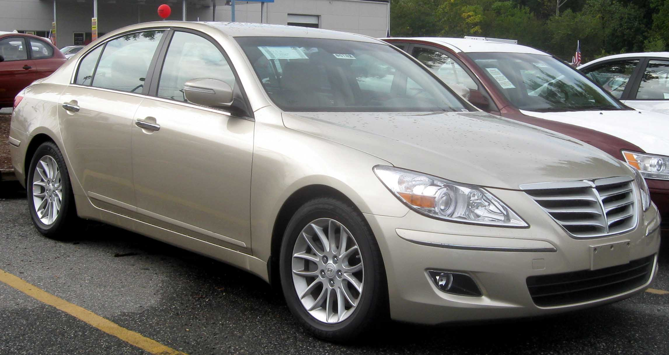 2009 Hyundai Genesis photographed in College Park, Maryland, USA.